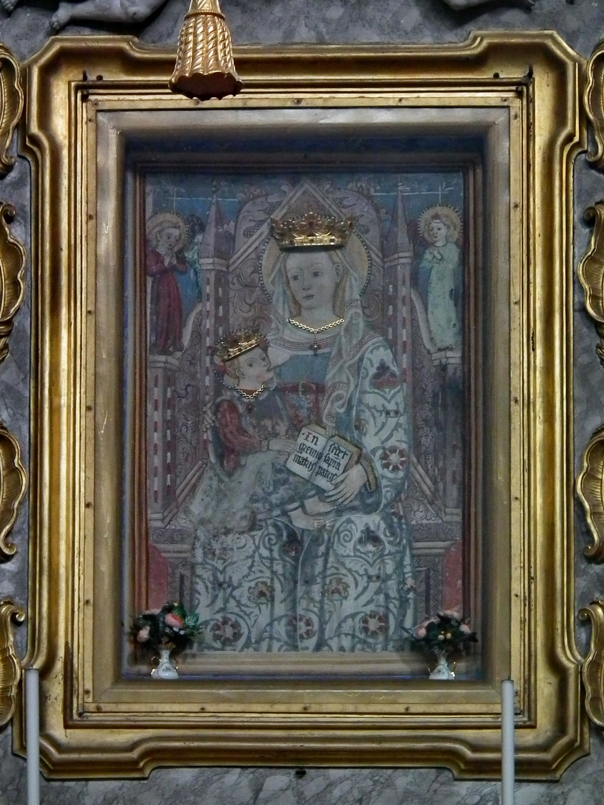 Santa Maria Assunta, Santa Maria Maggiore, Piedmont, Italy Church of the Assumption of Mary Native nameChiesa di Santa Maria AssuntaLocationSanta Maria Maggiore, Piedmont, ItalyCoordinates46° 08′ 07″ N, 8° 28′ 05″ E